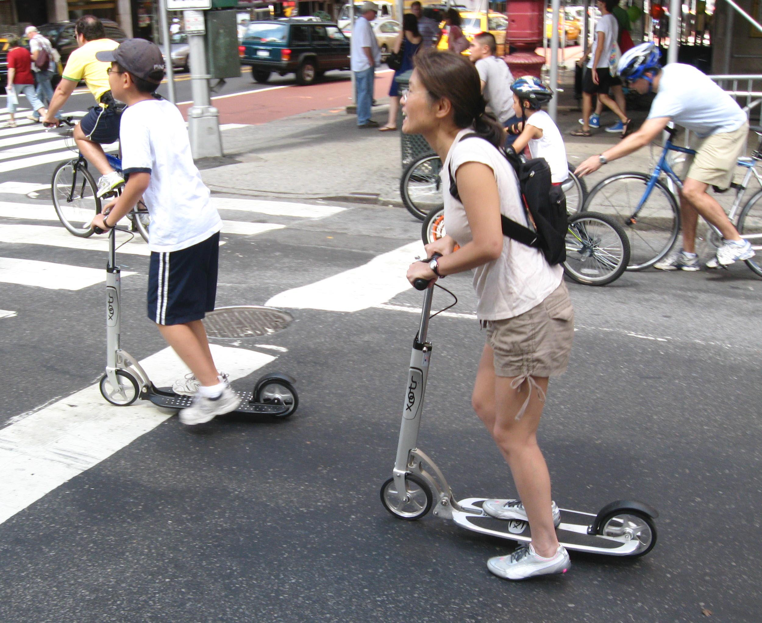 Looking southwest on Park Avenue (Manhattan) as mother and son ride their Xootrs southward towards en:34th Street (Manhattan) on a sunny midday. For the Xootr article, this pic replaced Image:Xootrs at Williams jeh.JPG in at the end of August 2008.